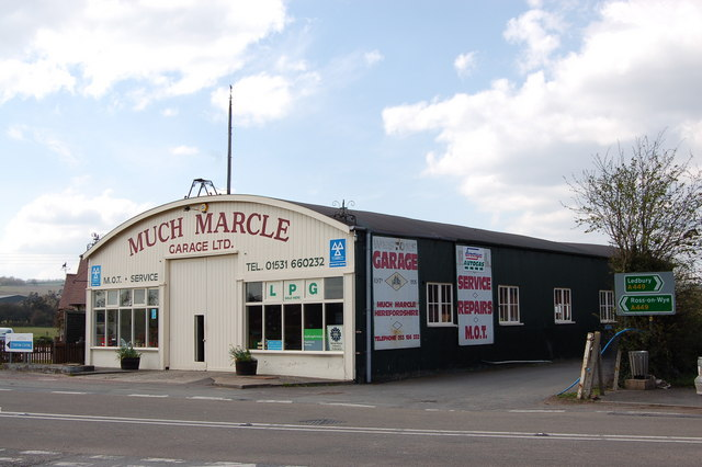 Garage on A449 at Much Marcle The front of this 1930s style garage has recently been extensively re-furbished.